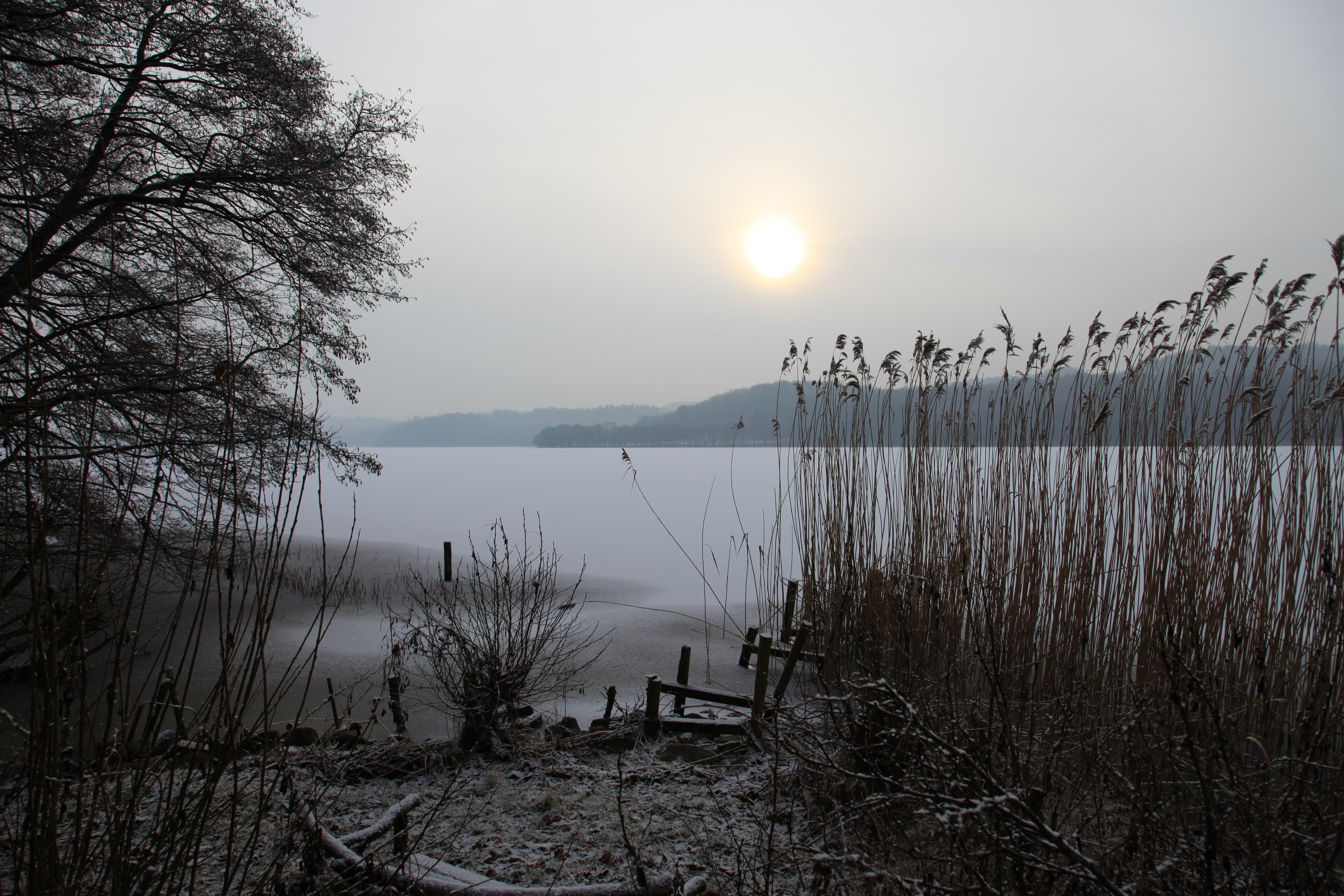 Picture of Ravnsø